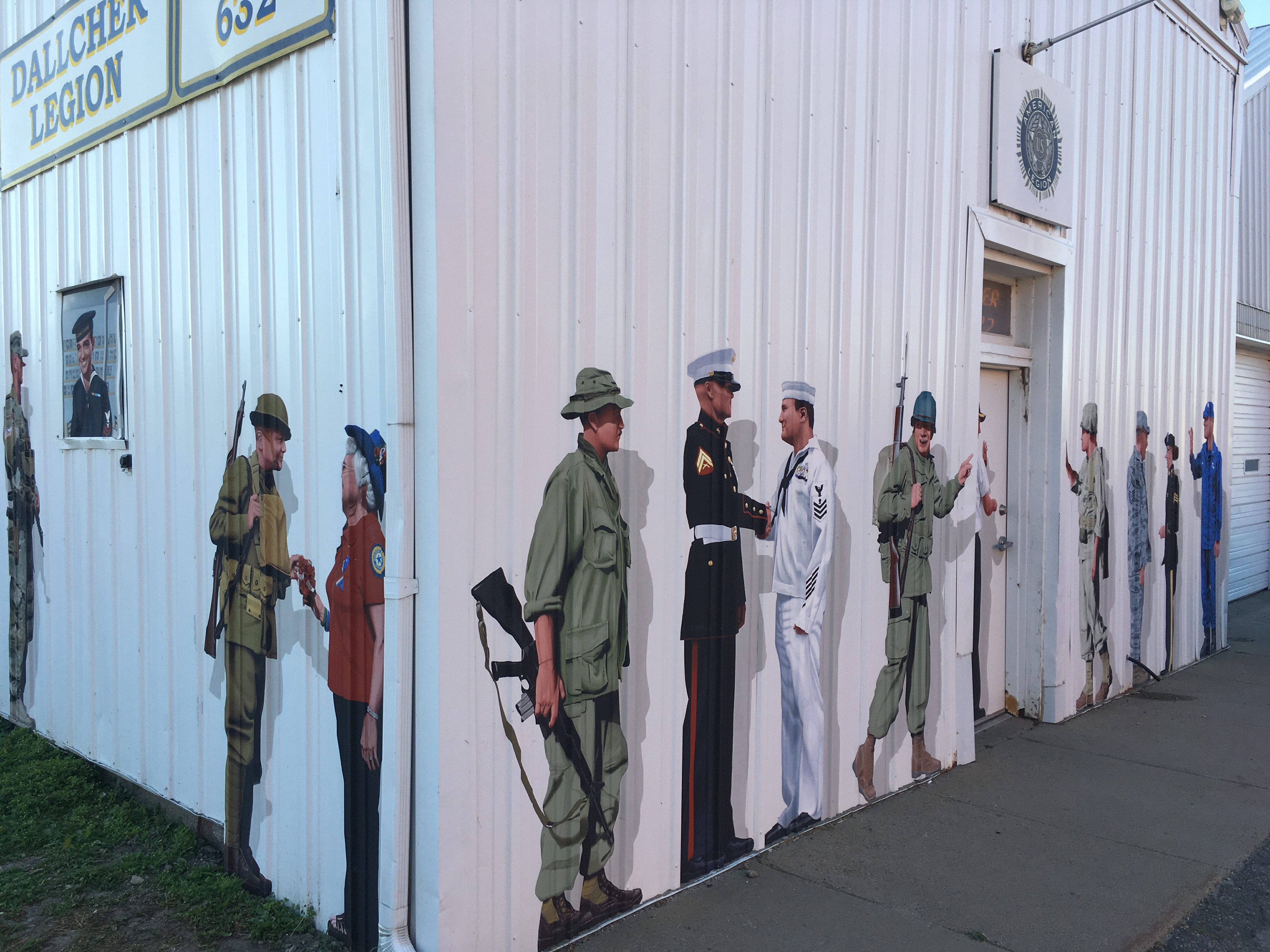 Mural painted on the American Legion Hall honoring Veterans